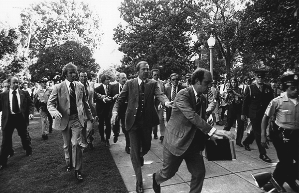 Following the September 5, 1975 10:04 am[1] attempt on U.S. President Gerald Ford's life by cultist Charles Manson Family member Lynette "Squeaky" Fromme, Secret Service agents rush President Ford towards the California State Capitol in Sacramento.